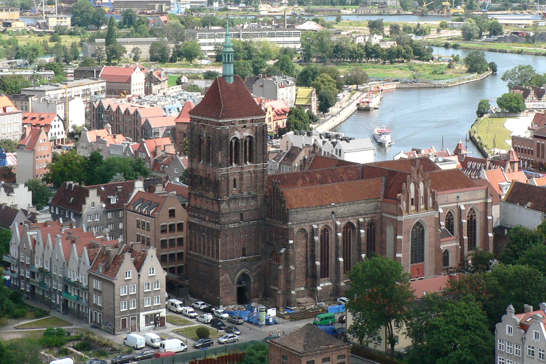 The Church of St.John in Gdańsk, a view from Gdańsk Cathedral's Tower.